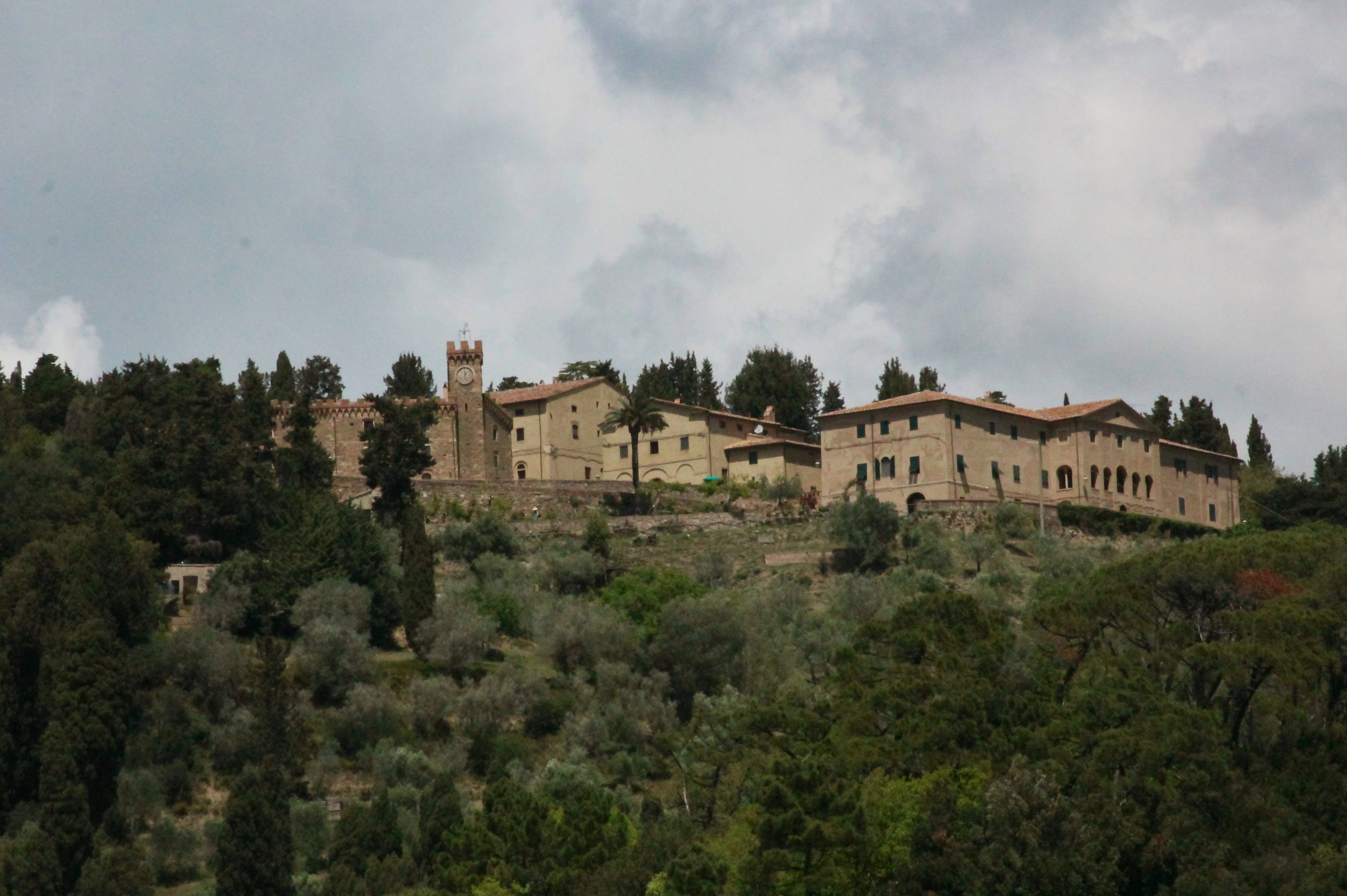 Casaglia, hamlet of Montecatini Val di Cecina, Province of Pisa, Tuscany, Italy